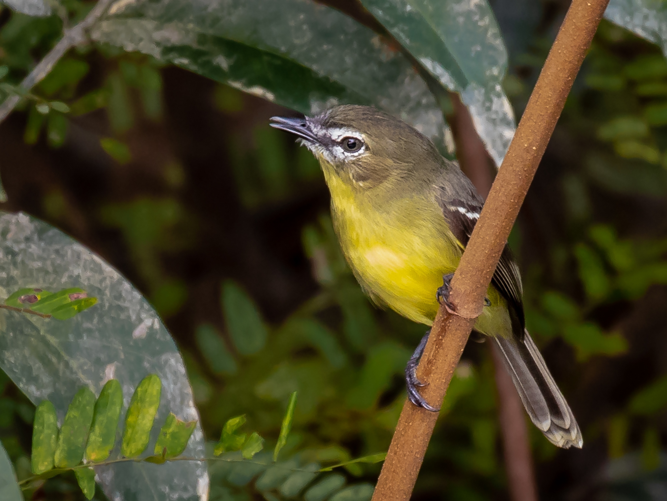 Amazonian inezia, Anavilhanas National Park, Novo Airão, Amazonas, Brazil